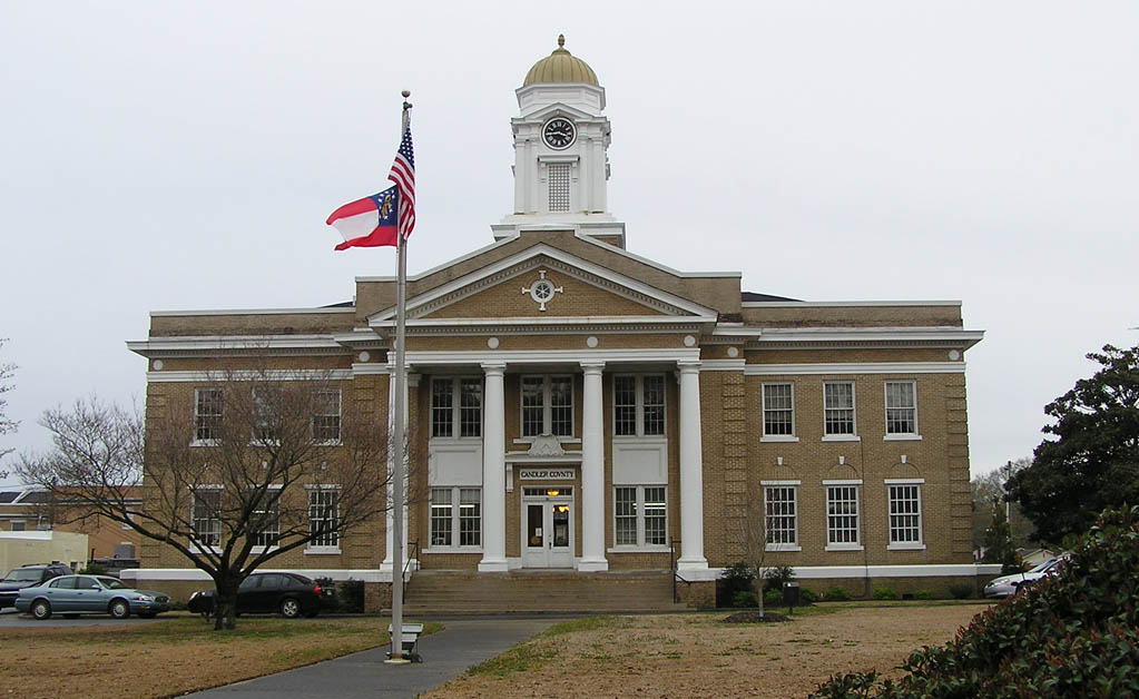 Richard Chambers, photographer, photo taken 02/21/2007 while driving through Metter. This photograph shows the Candler County Courthouse from the front.